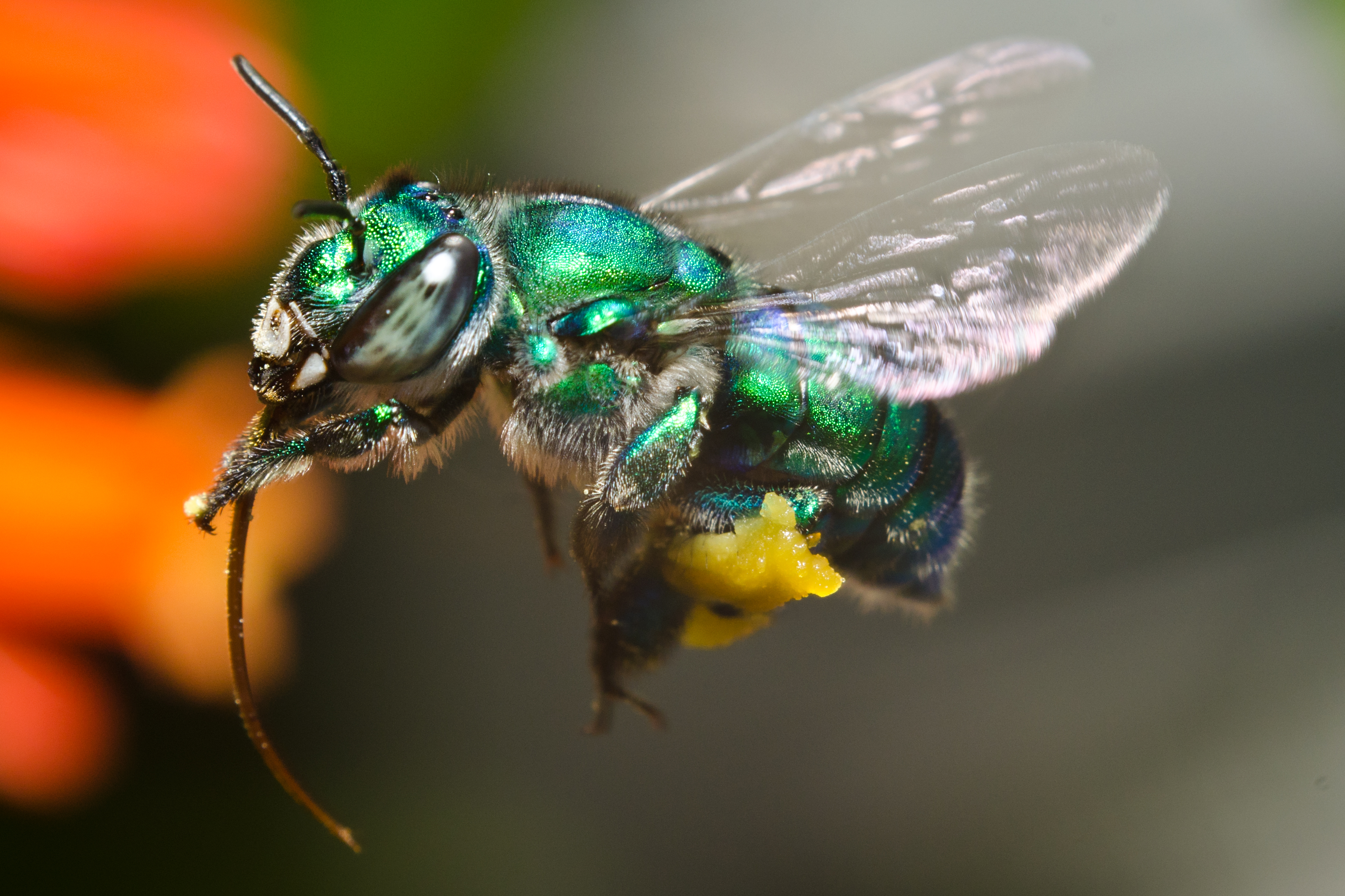 An orchid bee euglossa viridissima hovering near a Fire Bush flower.